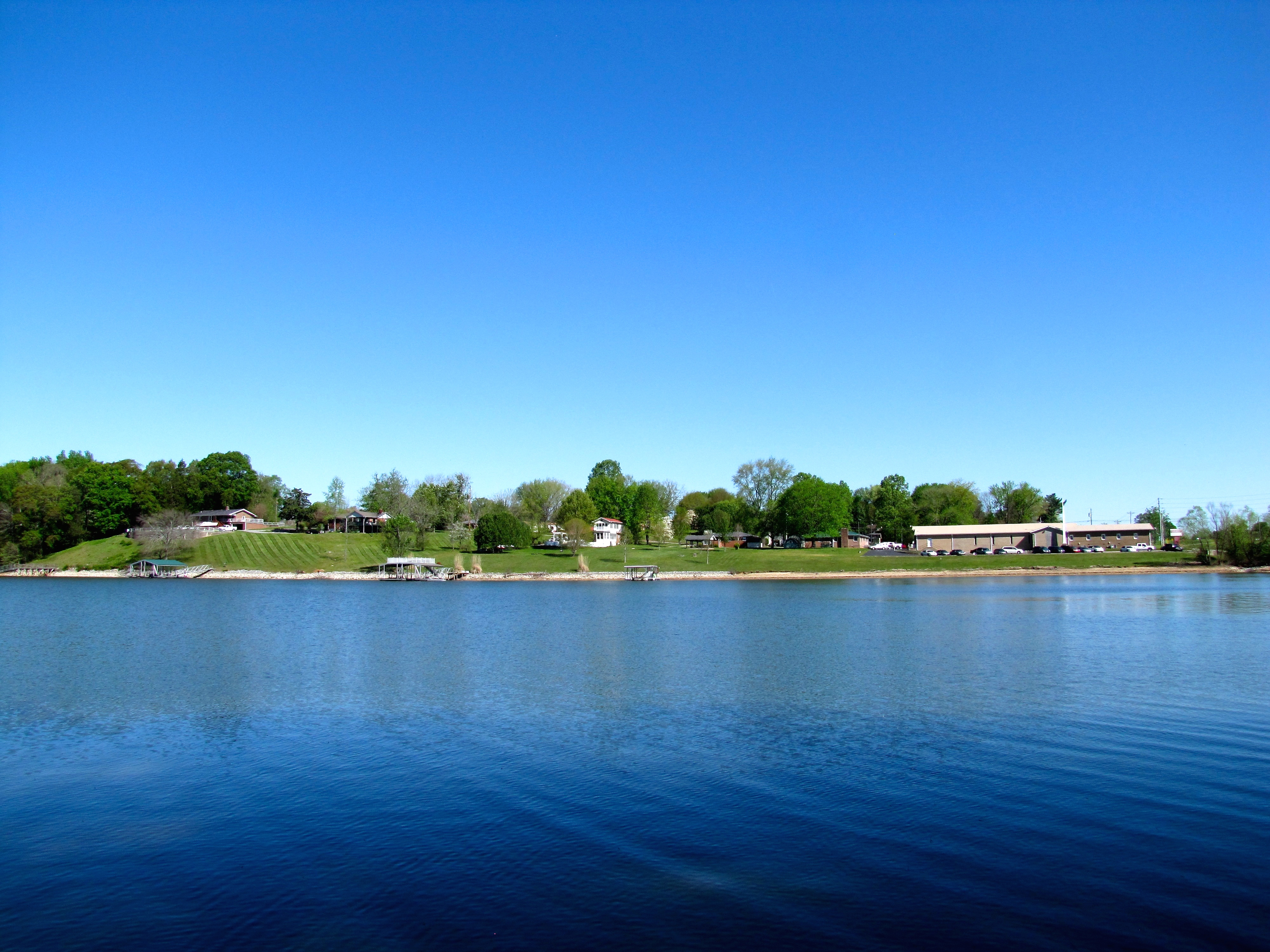 View across Tims Ford Lake (Elk River) toward Estill Springs, Tennessee, United States (Estill Springs Nazarene Church on the right).